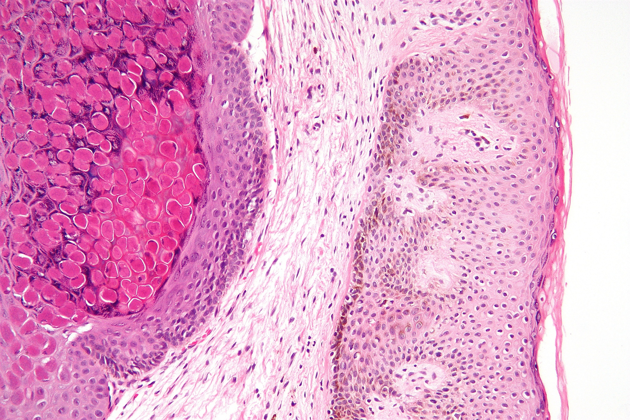 Low magnification micrograph of a molluscum contagiosum lesion. H&E stain. Molluscum cantagiosum is caused by the molluscum contagiosum virus (MCV) and leads to the formation of "molluscum bodies" in the epidermis above the stratum basale. The micrograph shows molluscum bodies, which consist of large cells with: abundant granular eosinophilic cytoplasm (which contain accumulated virons), and a small peripheral nucleus. Molluscum bodies may vaguely resemble signet ring cells, but the cytoplasm is eosinophilic and granular (as opposed to usually being clear), the nucleus usually smaller than in signet ring cell, and molluscum bodies are only in the epidermis (an uncommon place to find SRCs without finding them elsewhere). See also Image:molluscum contagiosum low mag.jpg - low magnification.